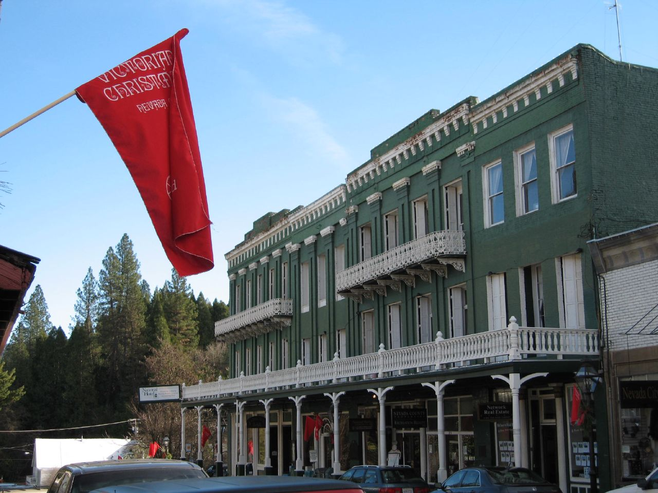 The following is the author's description of the photograph quoted directly from the photograph's Flickr page."The National Hotel in Nevada City, California "